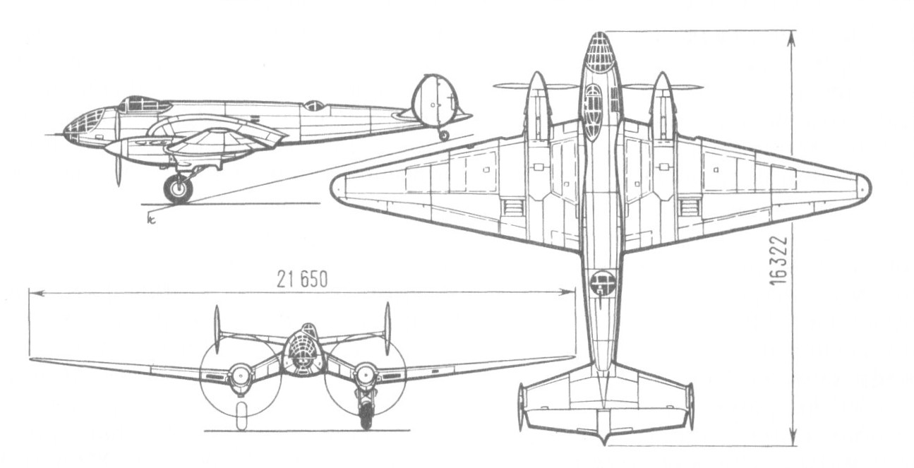 3 view of the Yermolayev Yer-2 twin-engined bomber